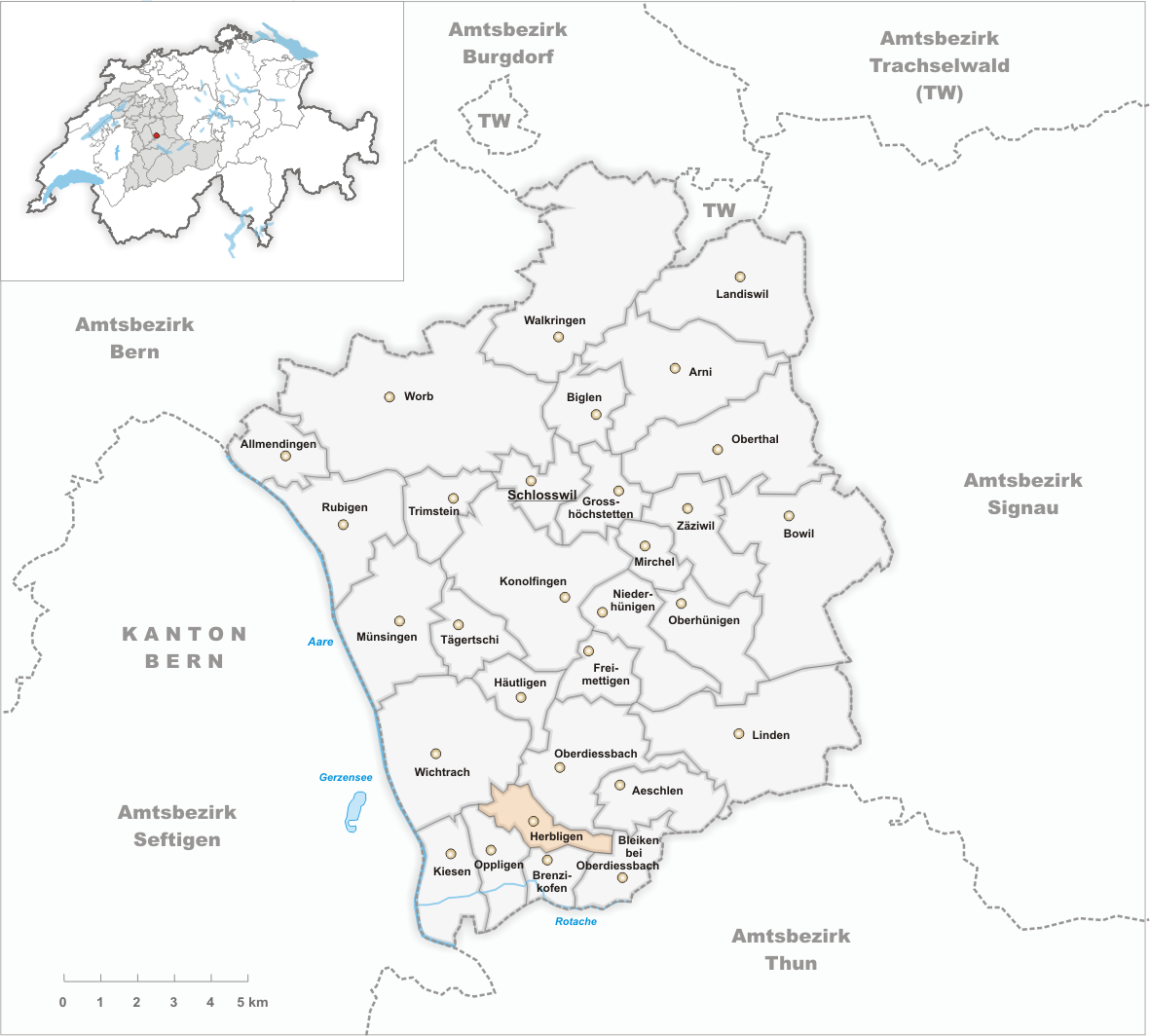 Municipality Herbligen